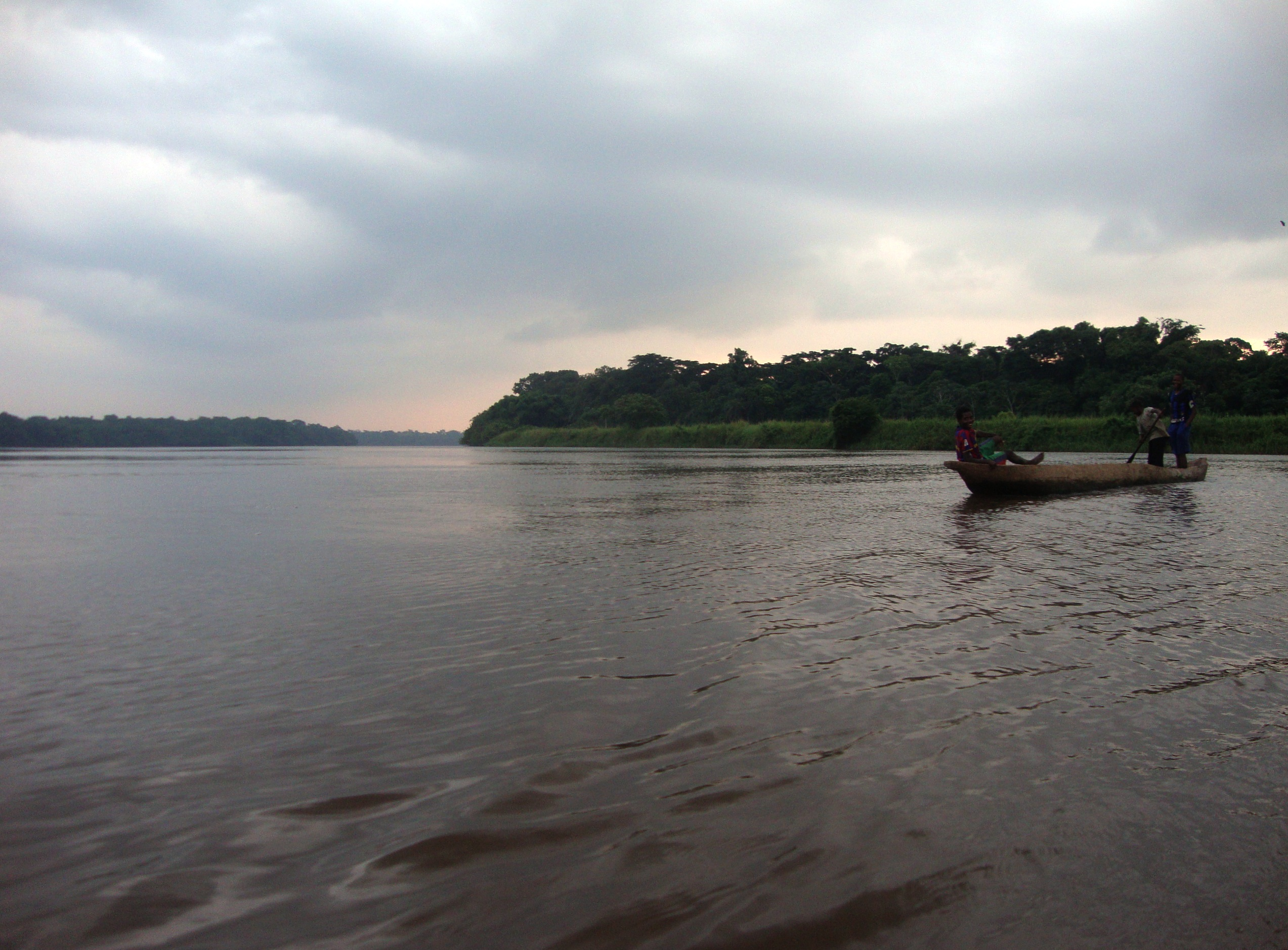 Uele river, with nearby dwellers on a pirogue, in June 2012. The picture was taken between Bomokandi and Logi Logi villages, that is where the river crosses the road Dingila-Ango, just before receiving the waters of Bomokandi river.